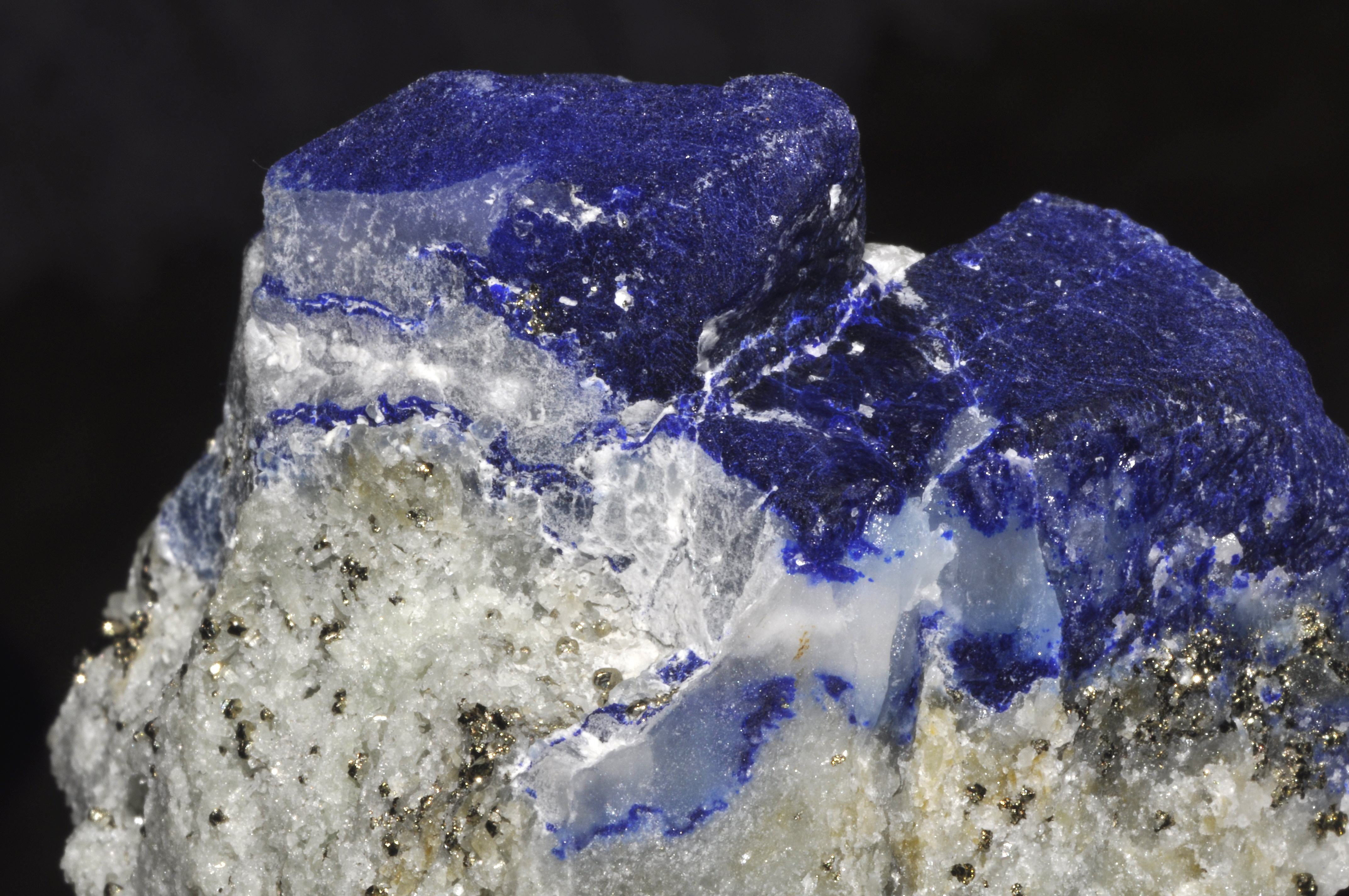 afghanite, pyrite, calcite : Sar-e-Sang (Sar Sang ; Sary Sang), Koksha Valley (Kokscha Valley ; Kokcha Valley), Khash & Kuran Wa Munjan Districts, Badakhshan Province (Badakshan Province ; Badahsan Province), Afghanistan